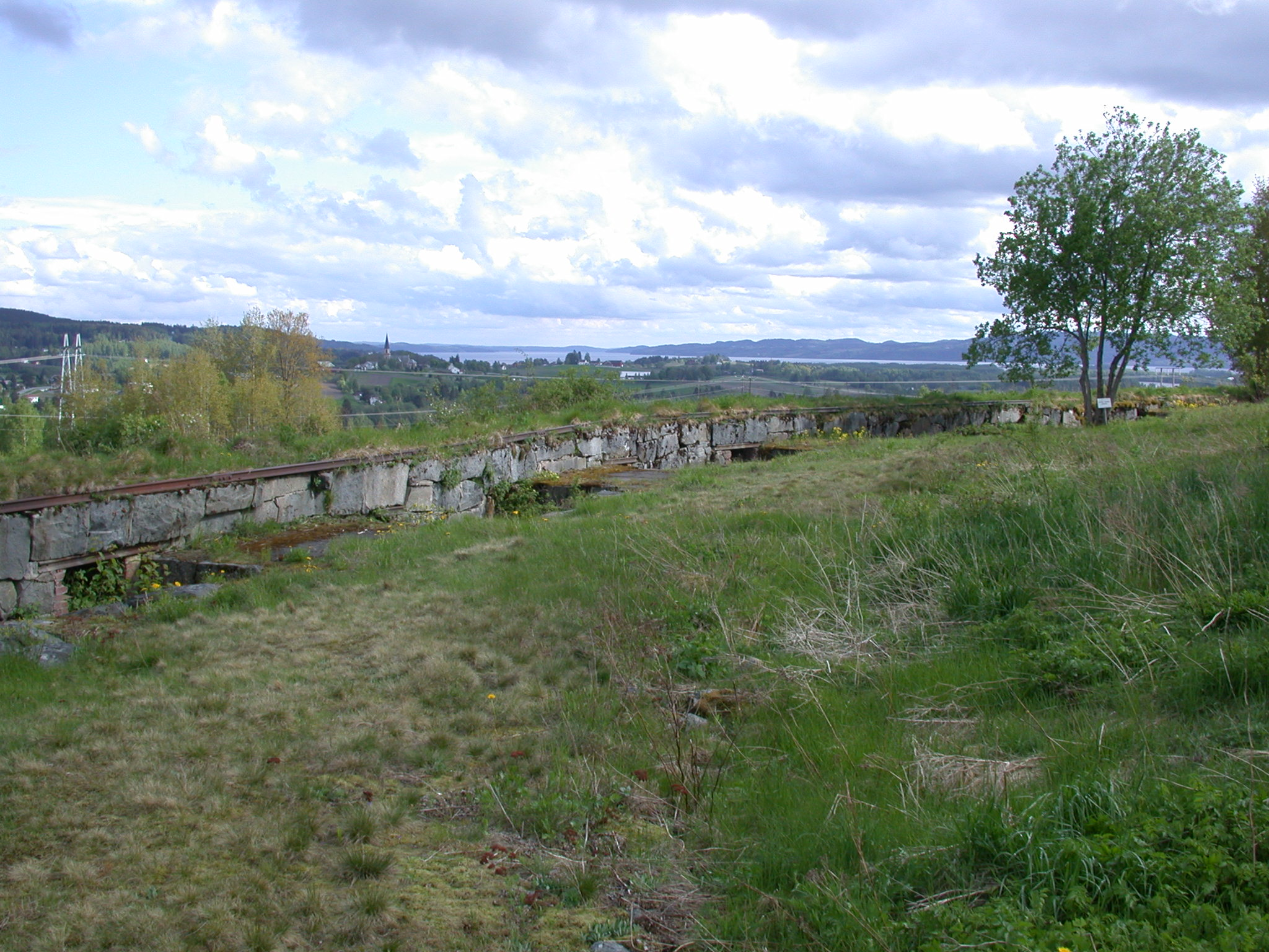 Fetsund battery, wiew over the rampart to the south direction Fetsund church and Hoegaas battery